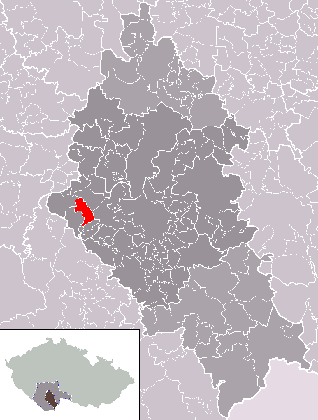 Location of Čakov municipality within České Budějovice District and administrative area of České Budějovice as a Municipality with Extended Competence.